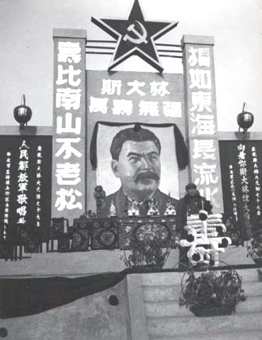 Chinese communists celebrated Stalin's seventy birthday.